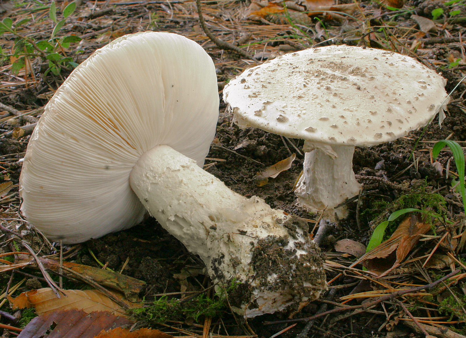 Amanita strobiliformis in a park near Massy, France.